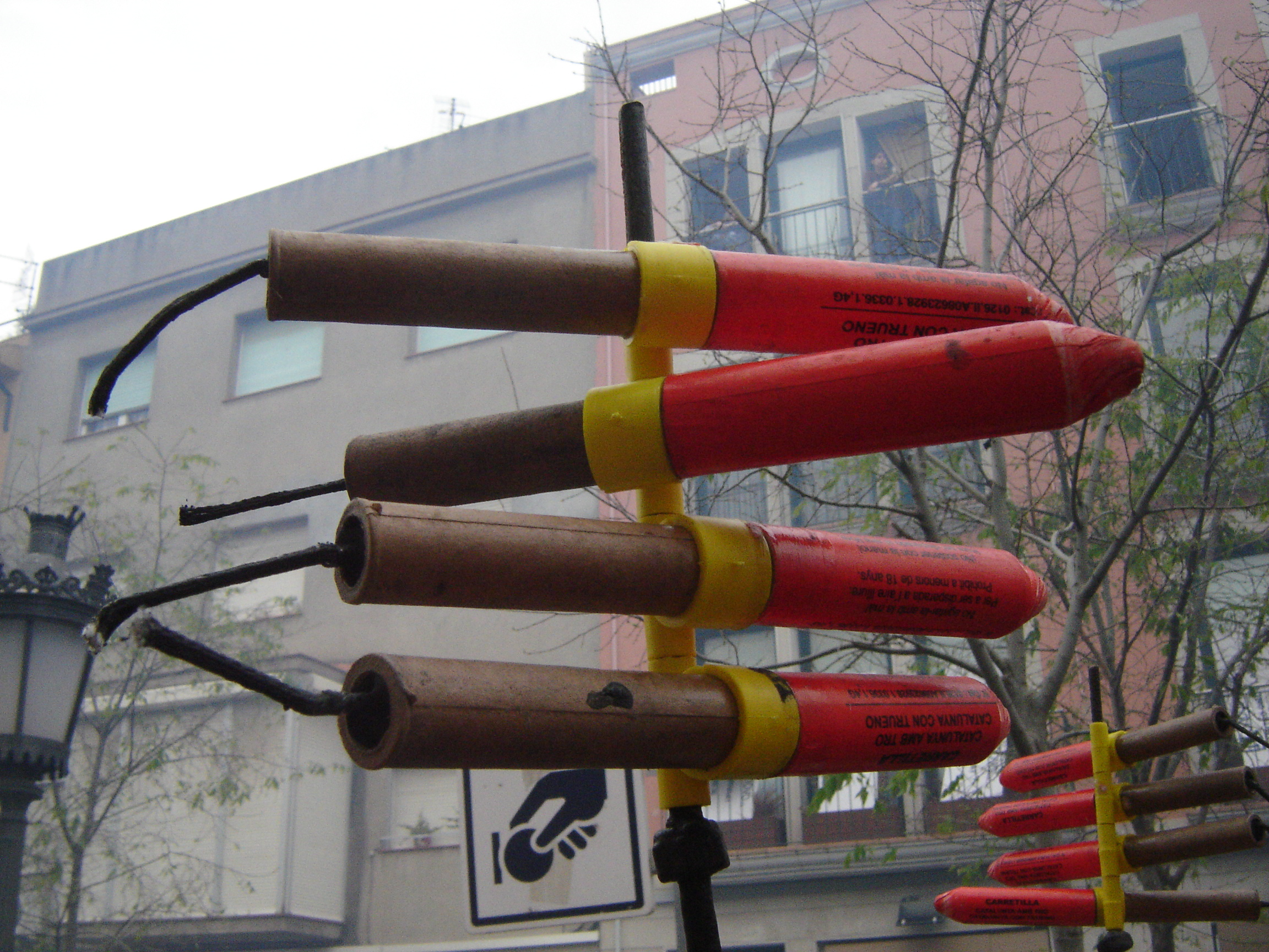 The firework cartridges used during 2002 Chinese New Year Celebrations.